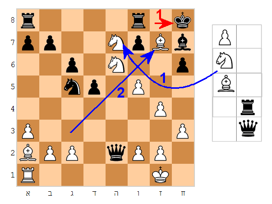 Crazyhouse Chess. MathKnight (at White) defeats his rival in Black. Black has clear advantage in matter on the board and with Rook and Queen to plant. He threatened to mate White, so White has to conjure something fast. And indeed, White plants a Knight in e7 and says "Check!", the Black King must move to h8. Then the White Bishop captures the Black Pawn in g7 and mates the Black King since it is supported by the Knight at e6. White wins.